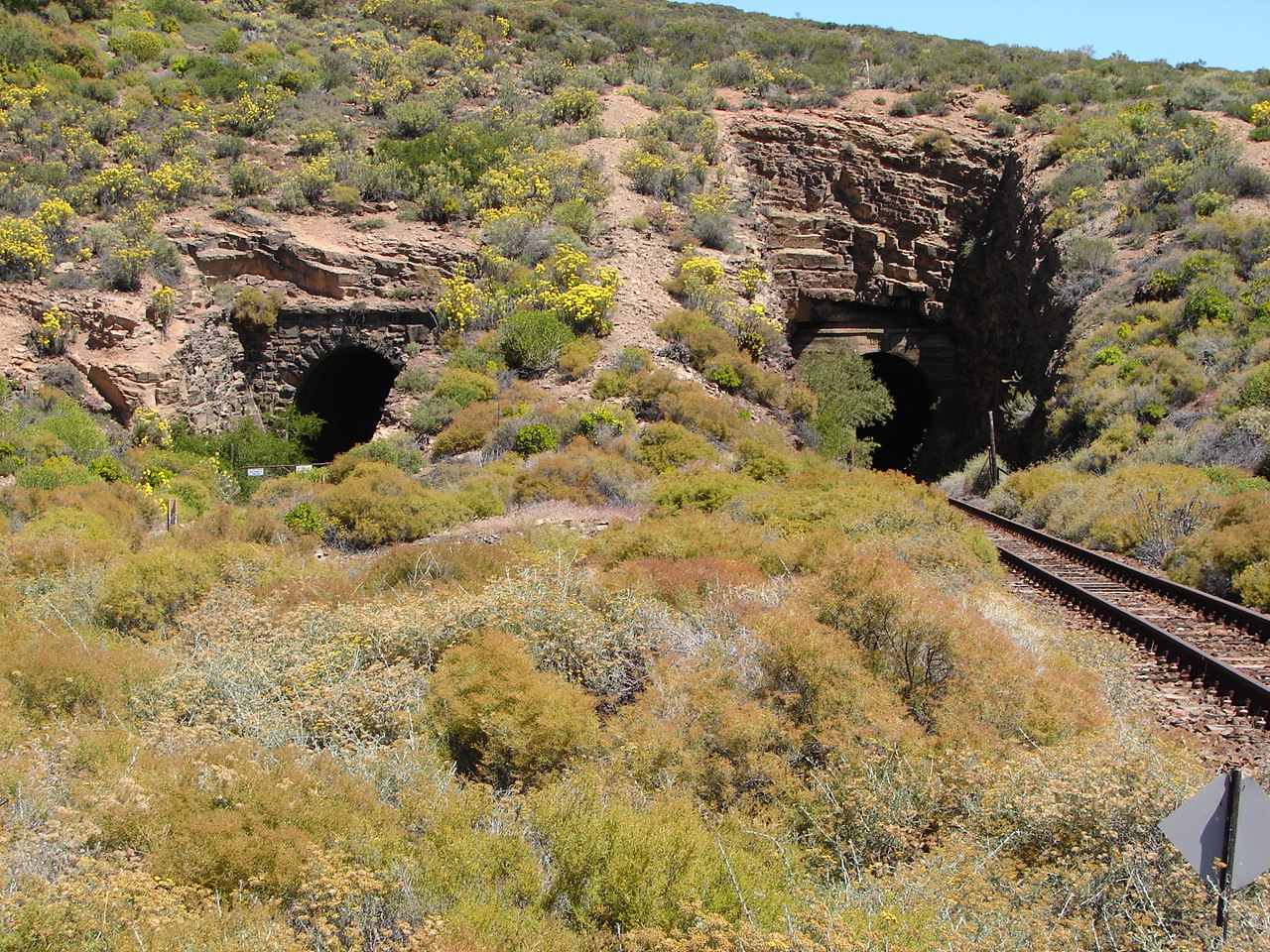 Eastern portals of the original 1876 Hex River railpass tunnel, Southern Africa's oldest railway tunnel, at left, and the new tunnel to the right that was sunk in 1929 to diminish a curve in order to accommodate larger locomotives.Location: Tunnel, near De Doorns, Western Cape.